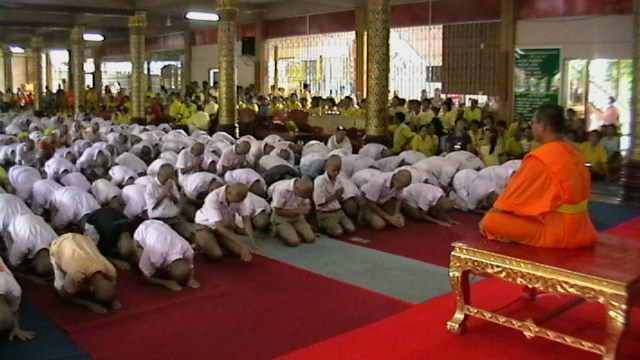 Candidates for the Buddhist child priesthood are humbling theirselves before a preceptor in a group ordination of the novitiate.